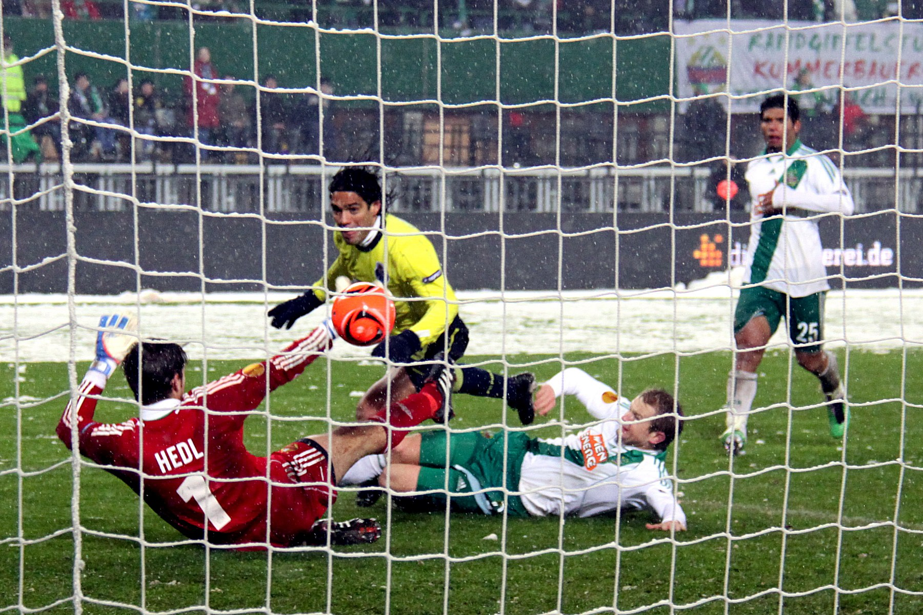 2010–11 UEFA Europa League - SK Rapid Wien vs. F.C. Porto 1:3, Ernst-Happel-Stadion (Vienna) – Radamel Falcao scores his 3rd goal. Keeper Raimund Hedl and Mario Sonnleitner are too late.